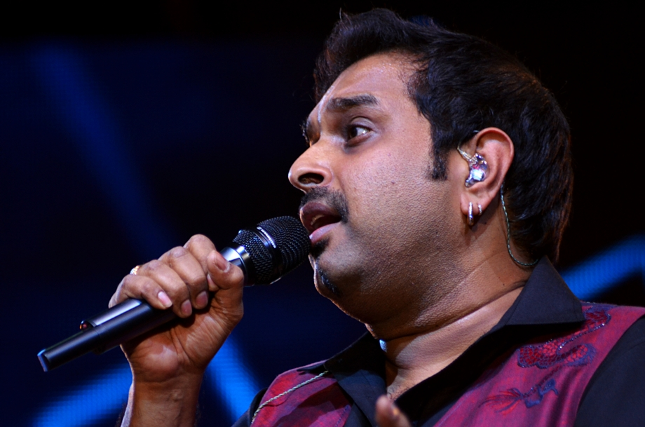 Shankar Mahadevan performing with Shankar-Ehsaan-Loy Trio at Idea Rocks India concert at NICE Grounds in Bangalore, Karnataka. (Photo - Jim Ankan Deka)